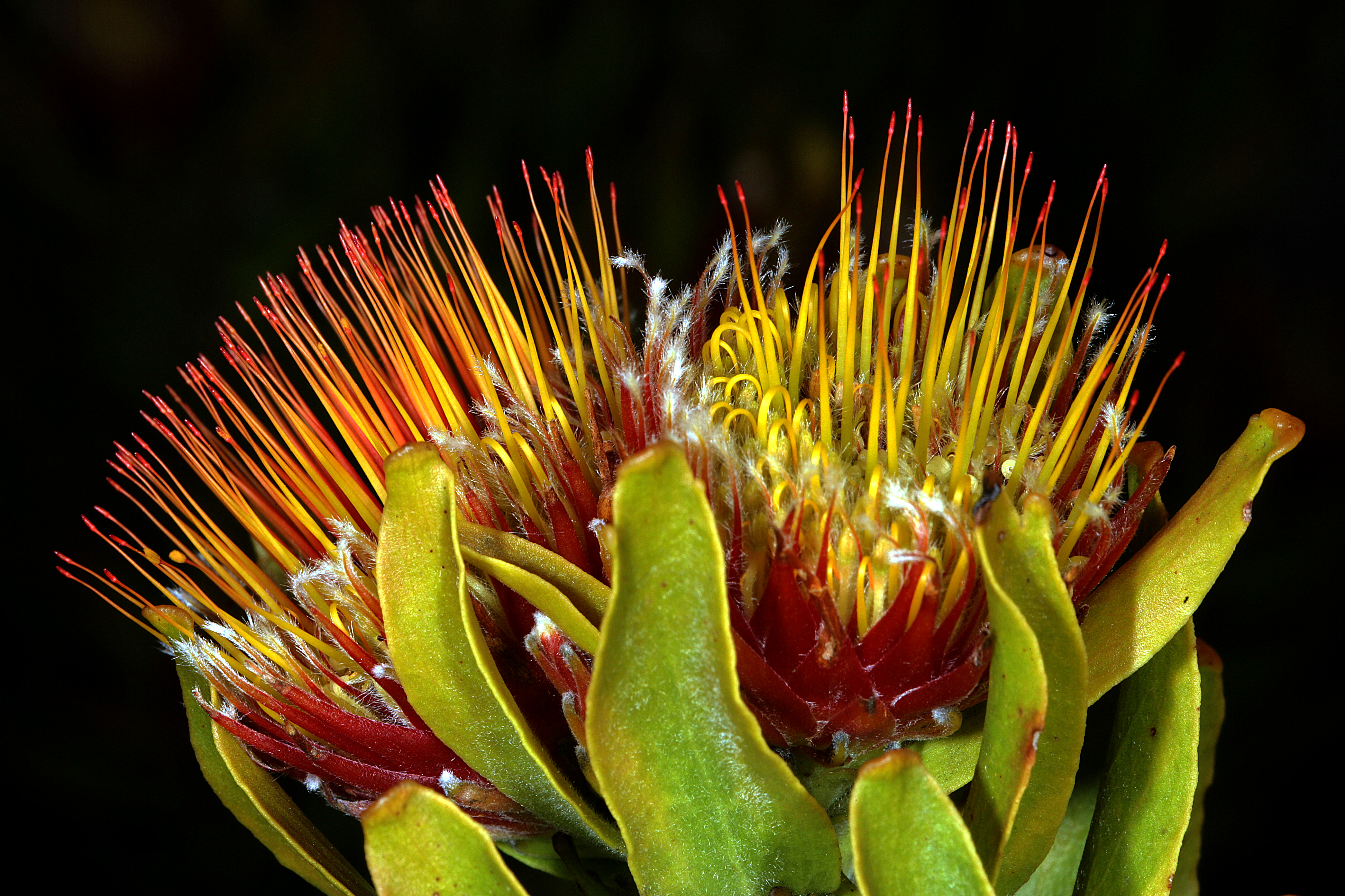 Leucospermum oleifolium, flowerheads; Kogelberg Biosphere Reserve, Kleinmond, Western Cape, South Africa